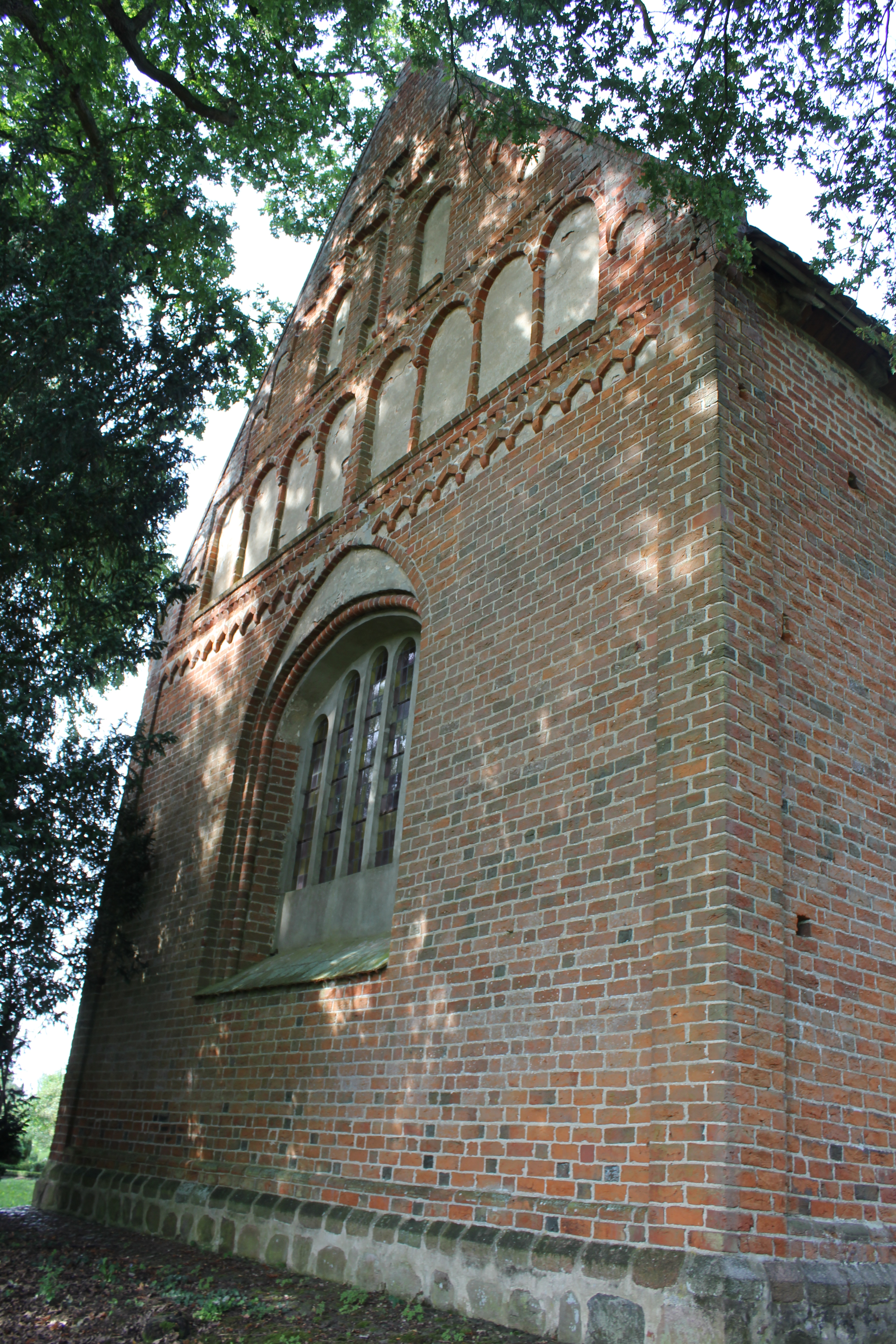 Eastside of the Church in Unter Bruez, Germany